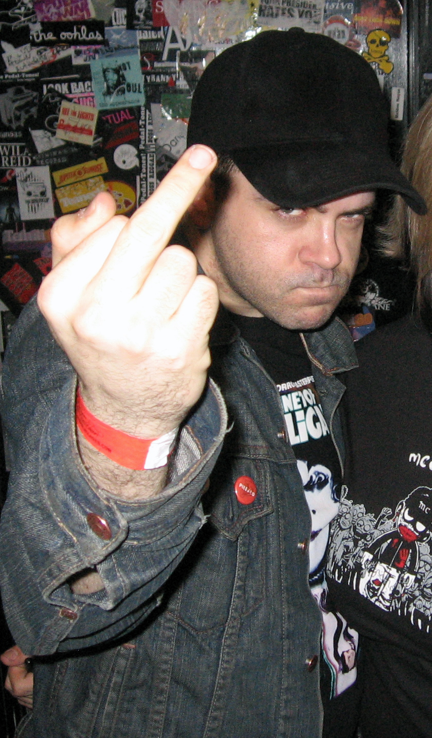 This is a photograph of Chris Ward, otherwise known as mc chris; the photo should be added to the mc chris article. (Mc_chris) It was taken by myself on April 4th, 2007 in Anaheim, California.